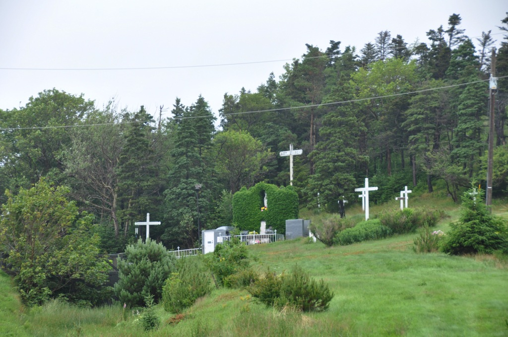 Presentation Convent Grounds Municipal Heritage Site, Renews-Cappahayden, Newfoundland. The historic designation was made after the convent was torn down.